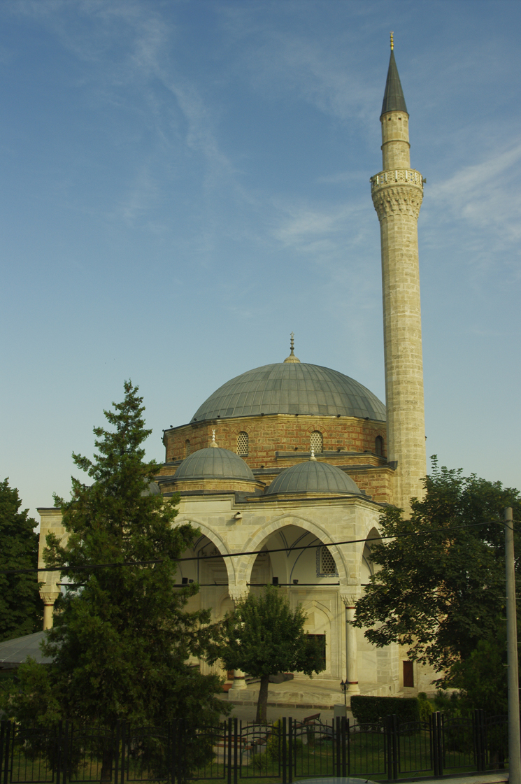 Mustafa Pasha Mosque is located in the Old Bazaar of Skopje, Macedonia. It stands on a plateau above the old bazaar and is one of the most beautiful Islamic buildings in Macedonia. It was built in 1492 by Mustafa Pasha, vizier on the court of Sultan Selim I.